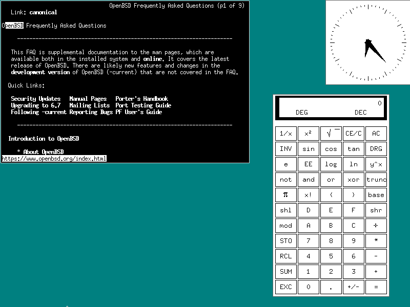 OpenBSD 6.7 cwm window manager.